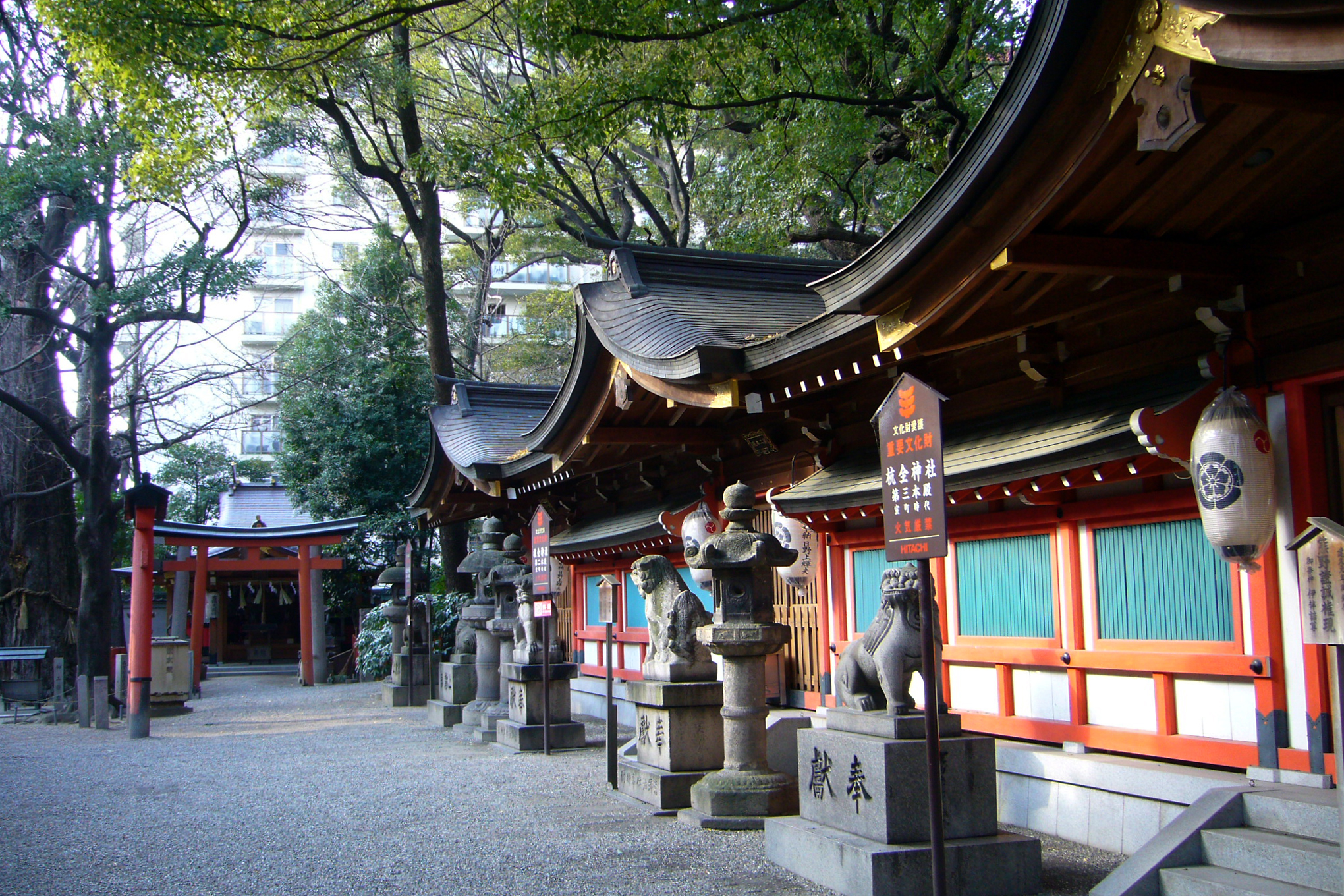 Kumata-jinja in Osaka, Osaka prefecture, Japan